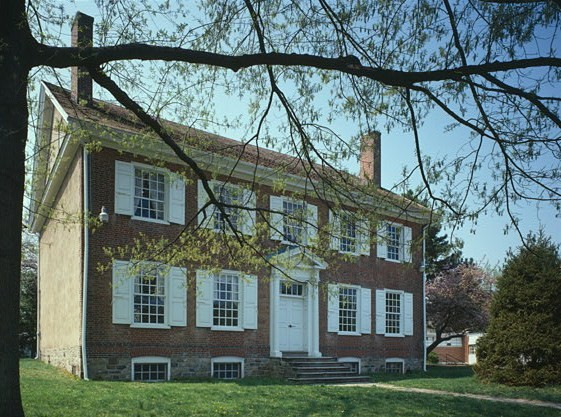 Summerseat, Clymer Street & Morris Avenue (Morrisville Borough), Morrisville (Bucks County, Pennsylvania) (cropped); Pennsylvania State Historical Marker on site, not visible